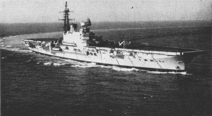 The British Royal Navy aircraft carrier HMS Hermes (R12) during the NATO exercise "Riptide III", in 1962.